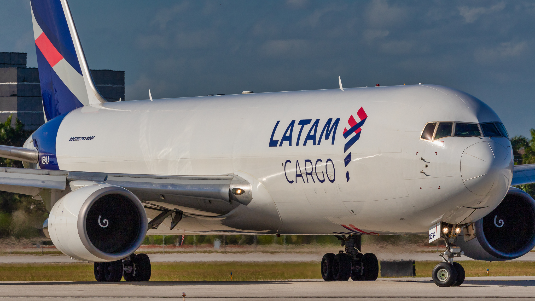 02142019_LATAM Cargo_B763F_N534LA_KMIA_NASEDIT